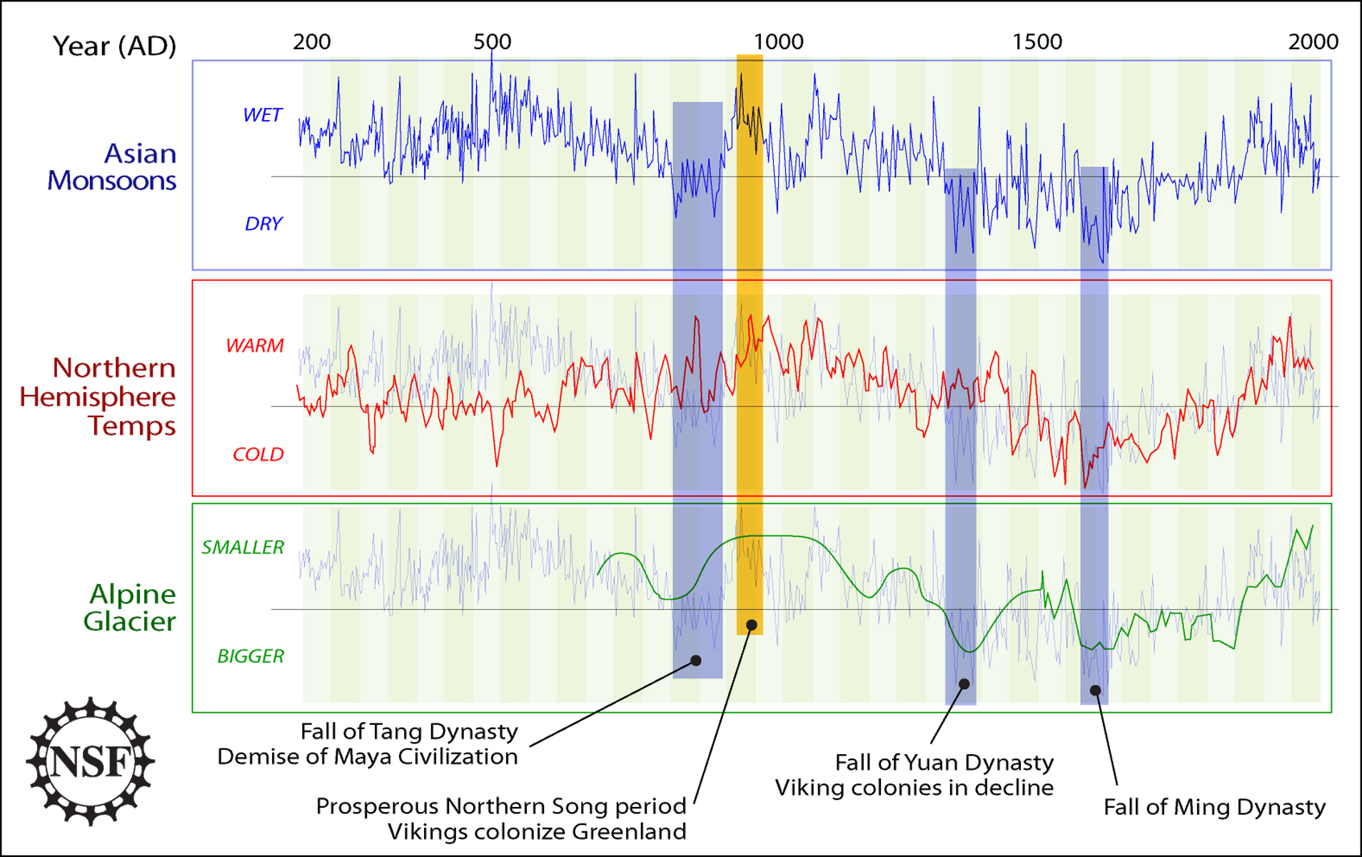 Correlations between Asian Monsoon precipitation from 200 A.D. to 2000 A.D. (staying in the background on other plots), Northern Hemisphere temperature, Alpine glaciers (graph of extent vertically inverted as marked), and some events of human history as noted in a NSF study.